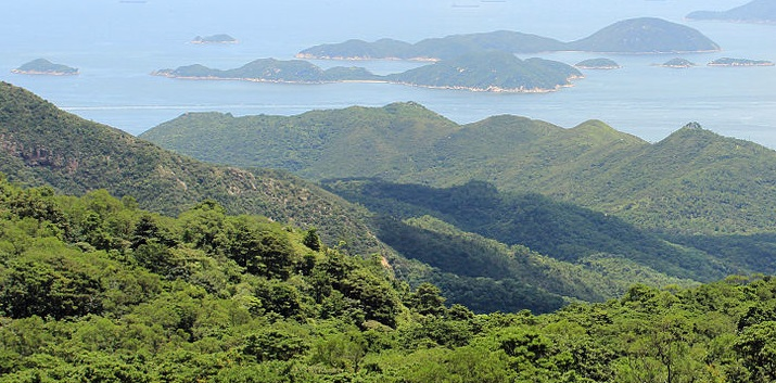 Soko Islands viewed from Tian Tan Buddha on Lantau.